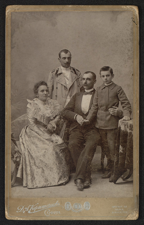 Georgi,_Teofana,_Anton_and_Nikolay_Unterberg_in_1899.